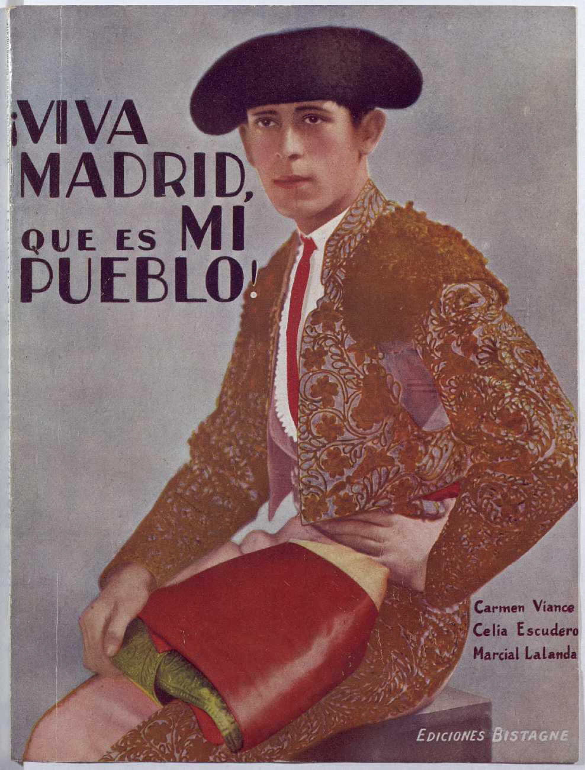 "Viva Madrid que es mi pueblo", a spanish film was directed by Fernando Delgado de Lara. The main caracther was Marcial Lalanda, a famous Spanish matador